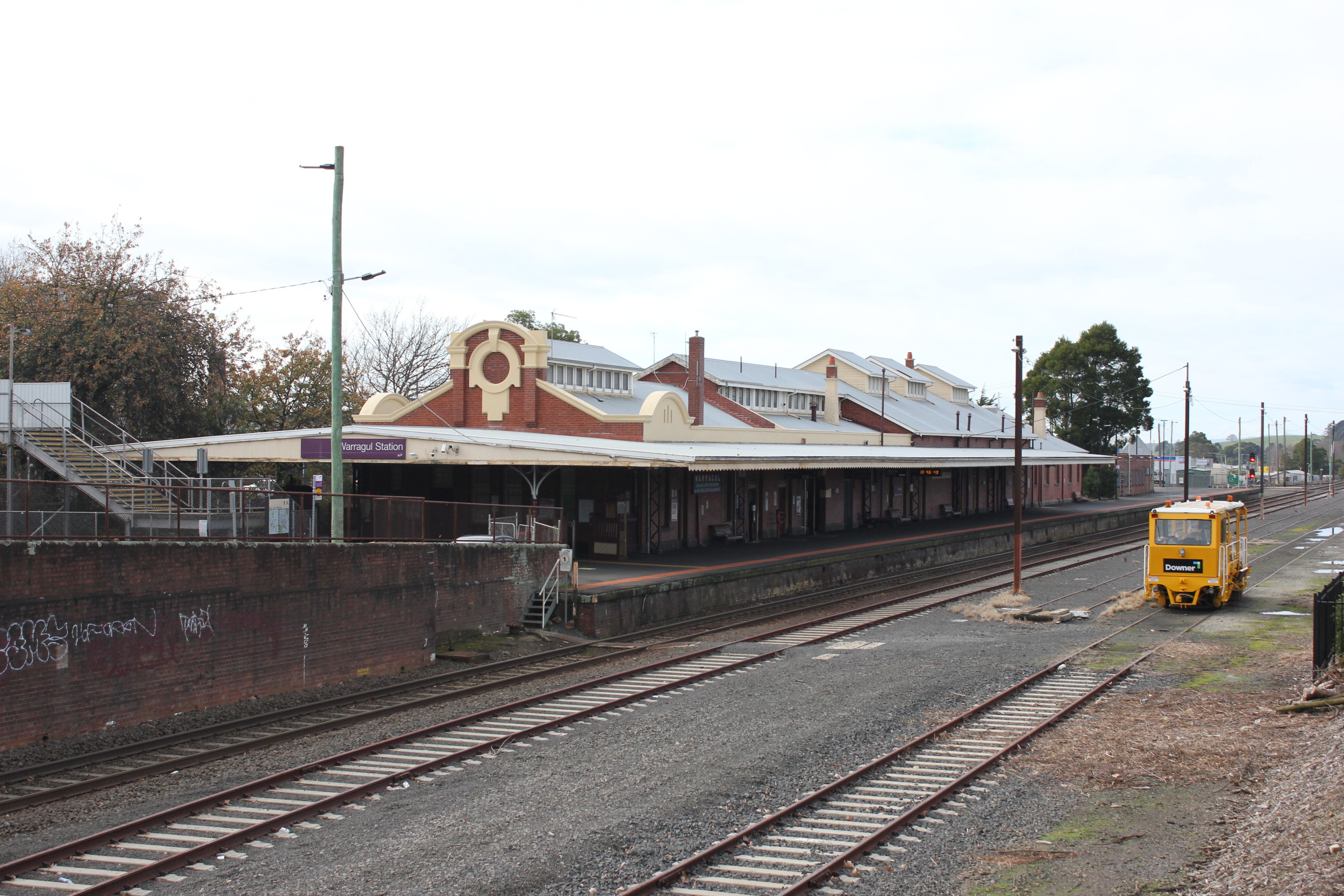 Eastbound view of Warragul railway station.